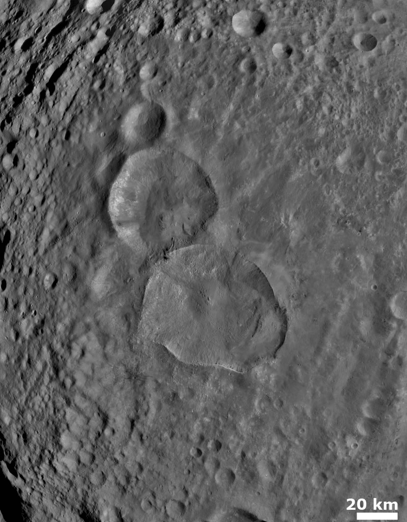 An image of two large young craters on Vesta taken by Dawn on August 6, 2011. It has a resolution of about 260 meters per pixel.